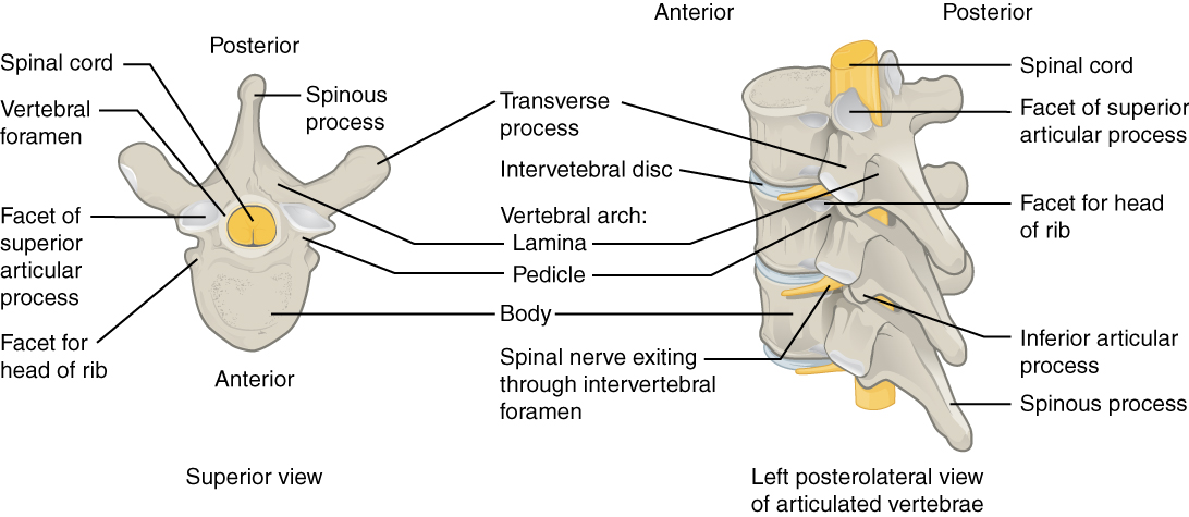 Illustration from Anatomy & Physiology, Connexions Web site. Jun 19, 2013.